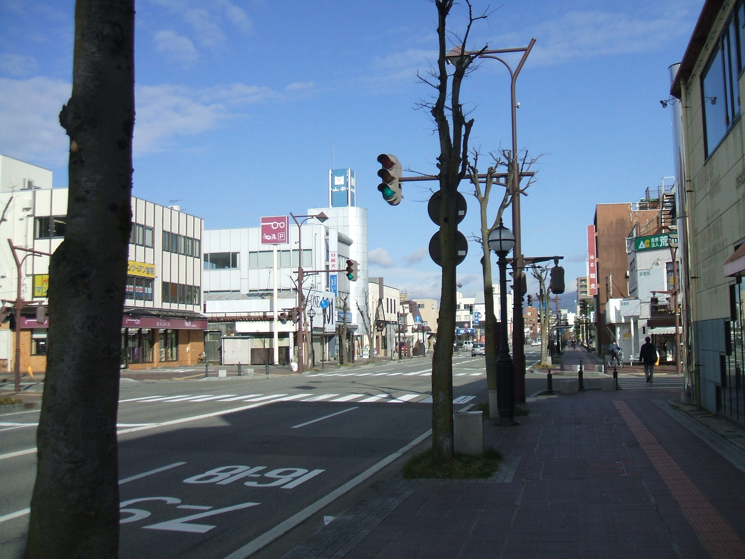 This is a landscape of Tyuo-Dori Street. It was taken at Tyuo, Aizuwakamatsu, Fukushima.